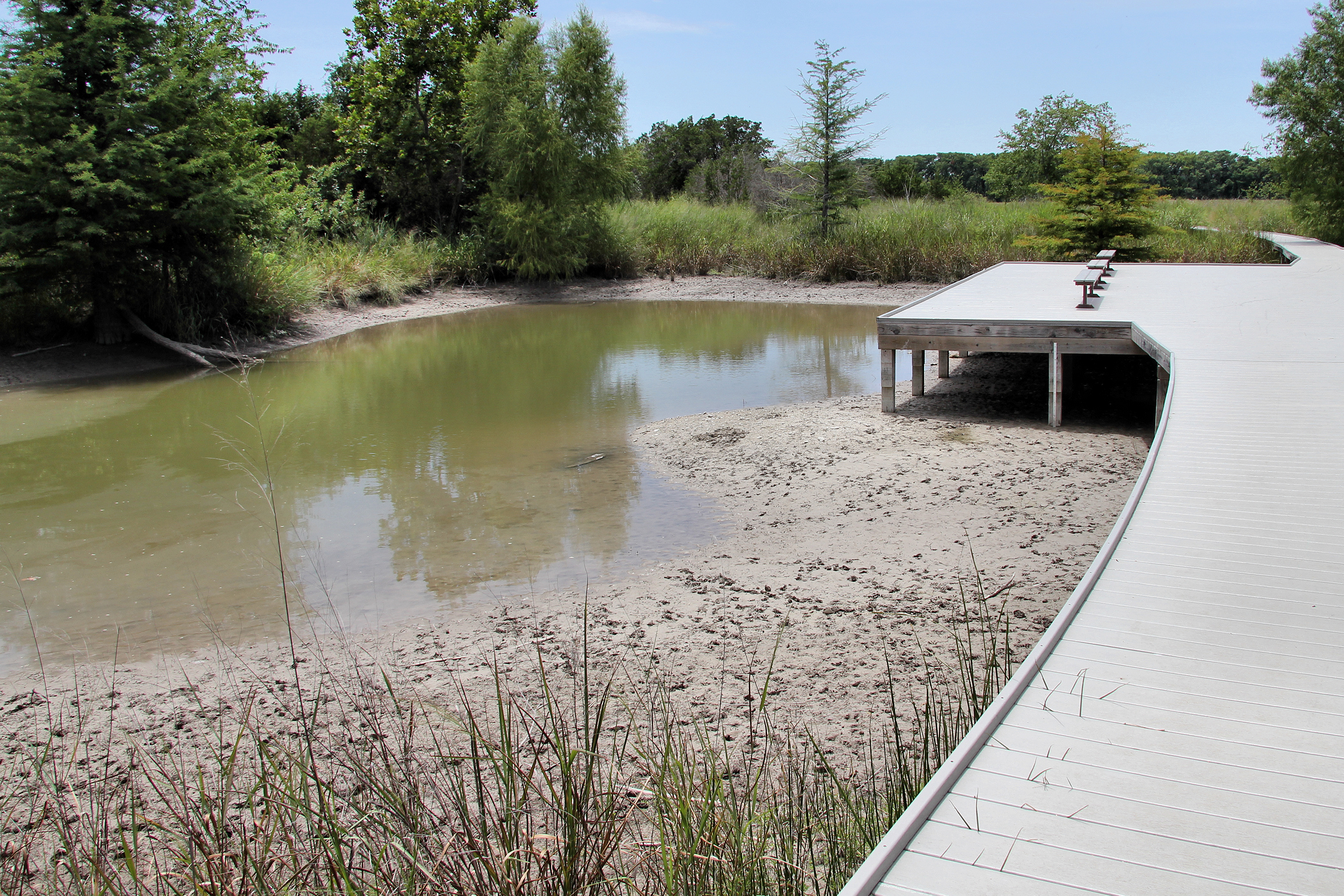 The Marsh Loop Trail Boardwalk at the Cibolo Nature Center in Boerne, Texas, United States.